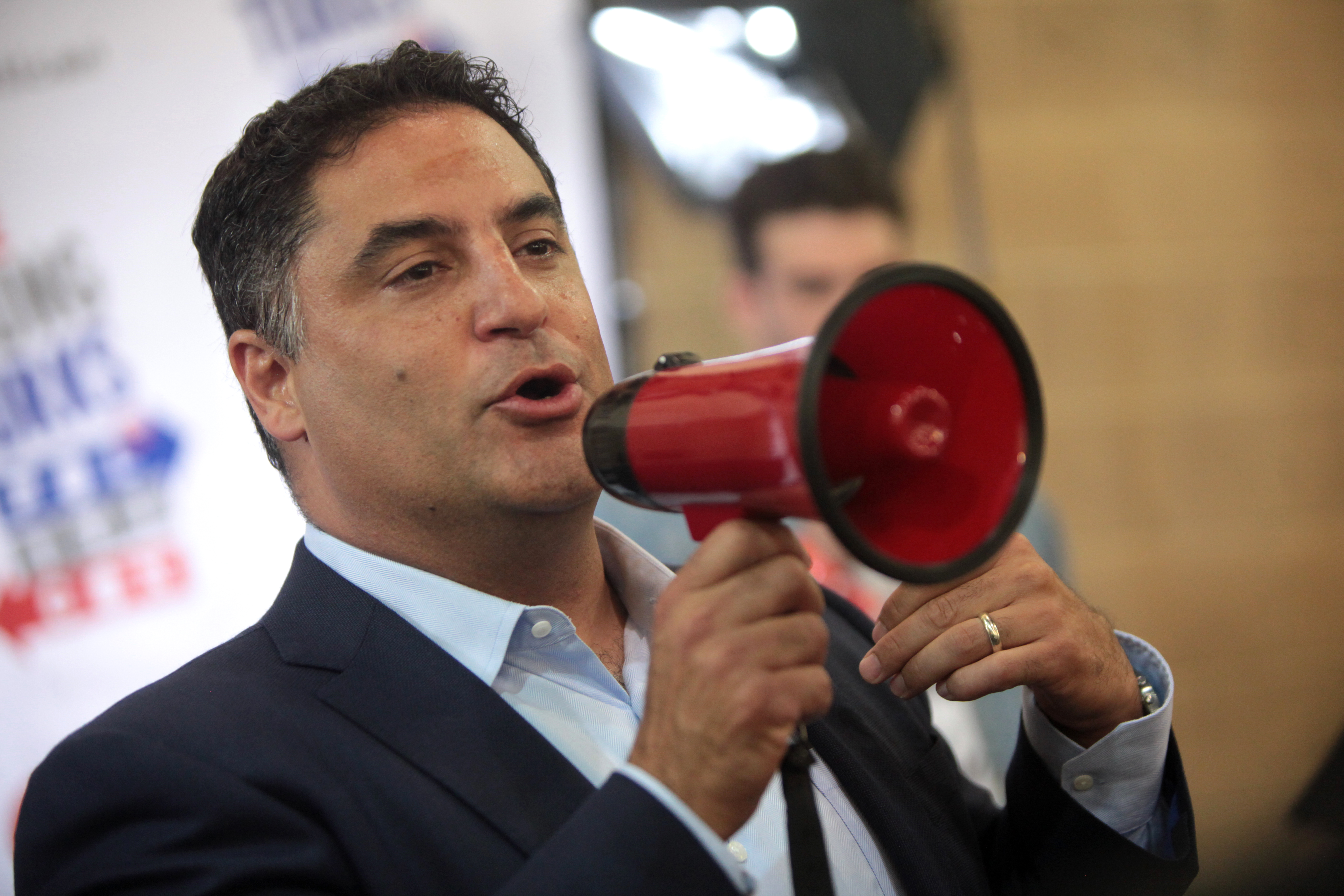 Cenk Uygur speaking at the 2016 Politicon at the Pasadena Convention Center in Pasadena, California.